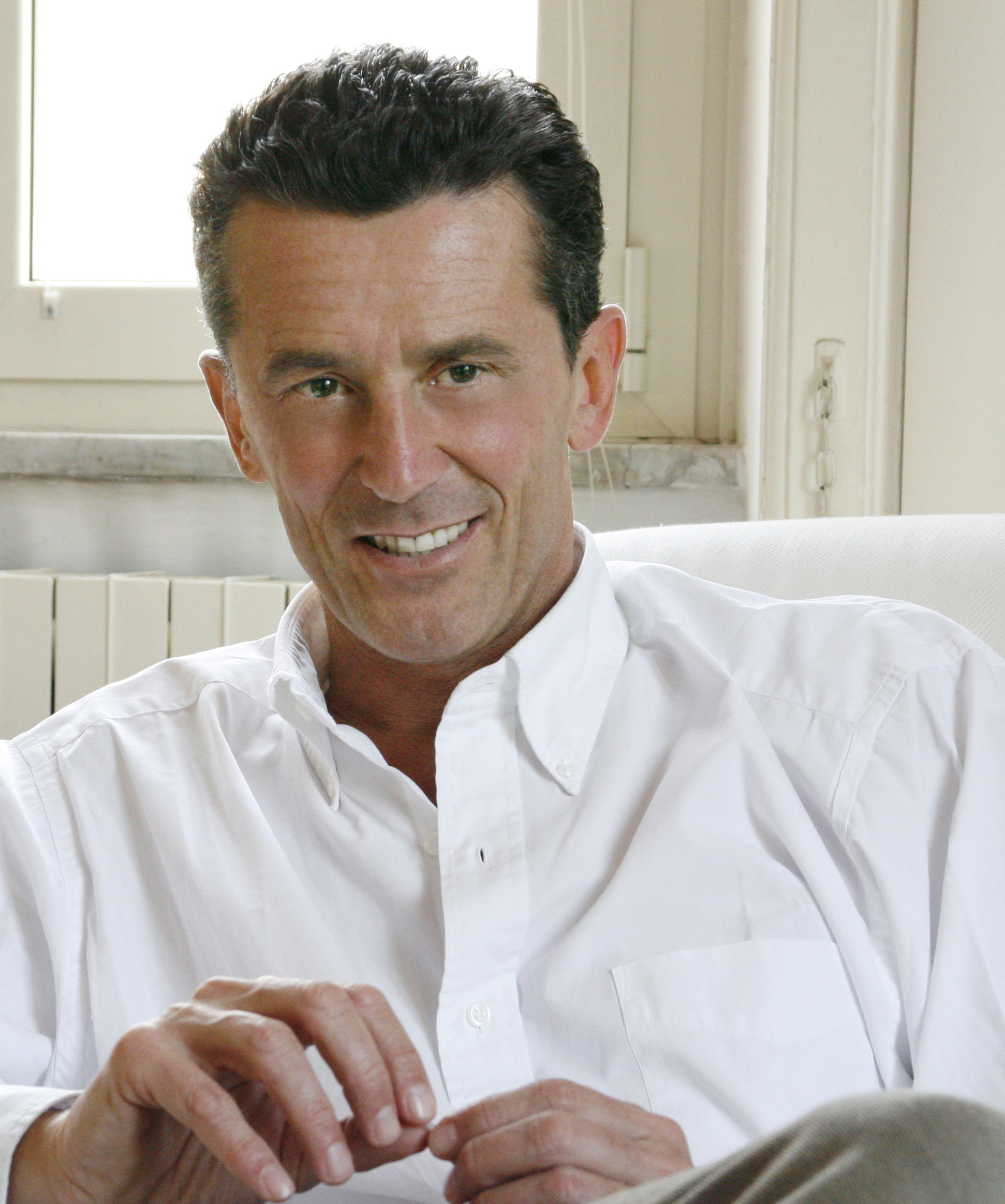 Close up of Marco Bassetti the picture is a gift from the author to the portrayed person